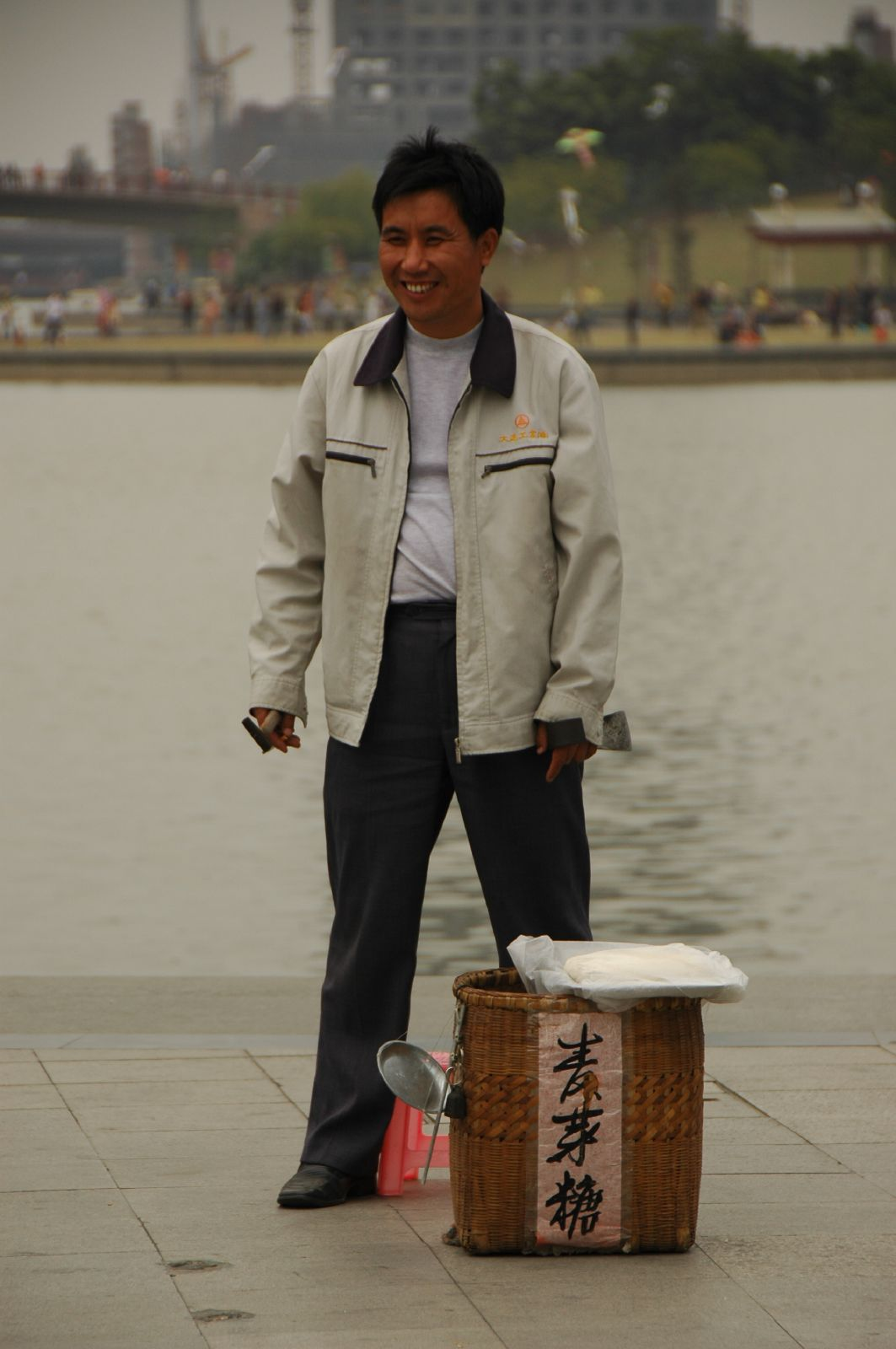 The "father" of Chinese Rock. He is a candy seller. 粵語: 廣東佛山賣麥芽糖嘅小販